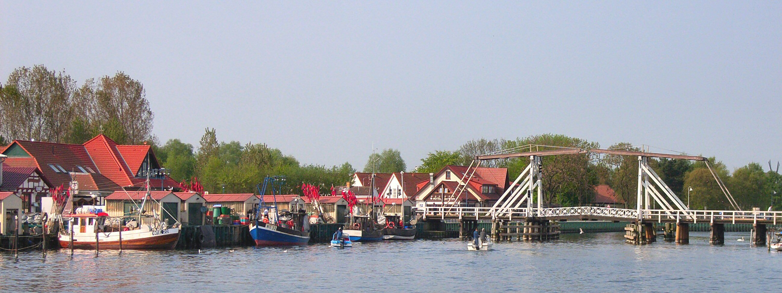 the small fishing port in Greifswald-Wieck